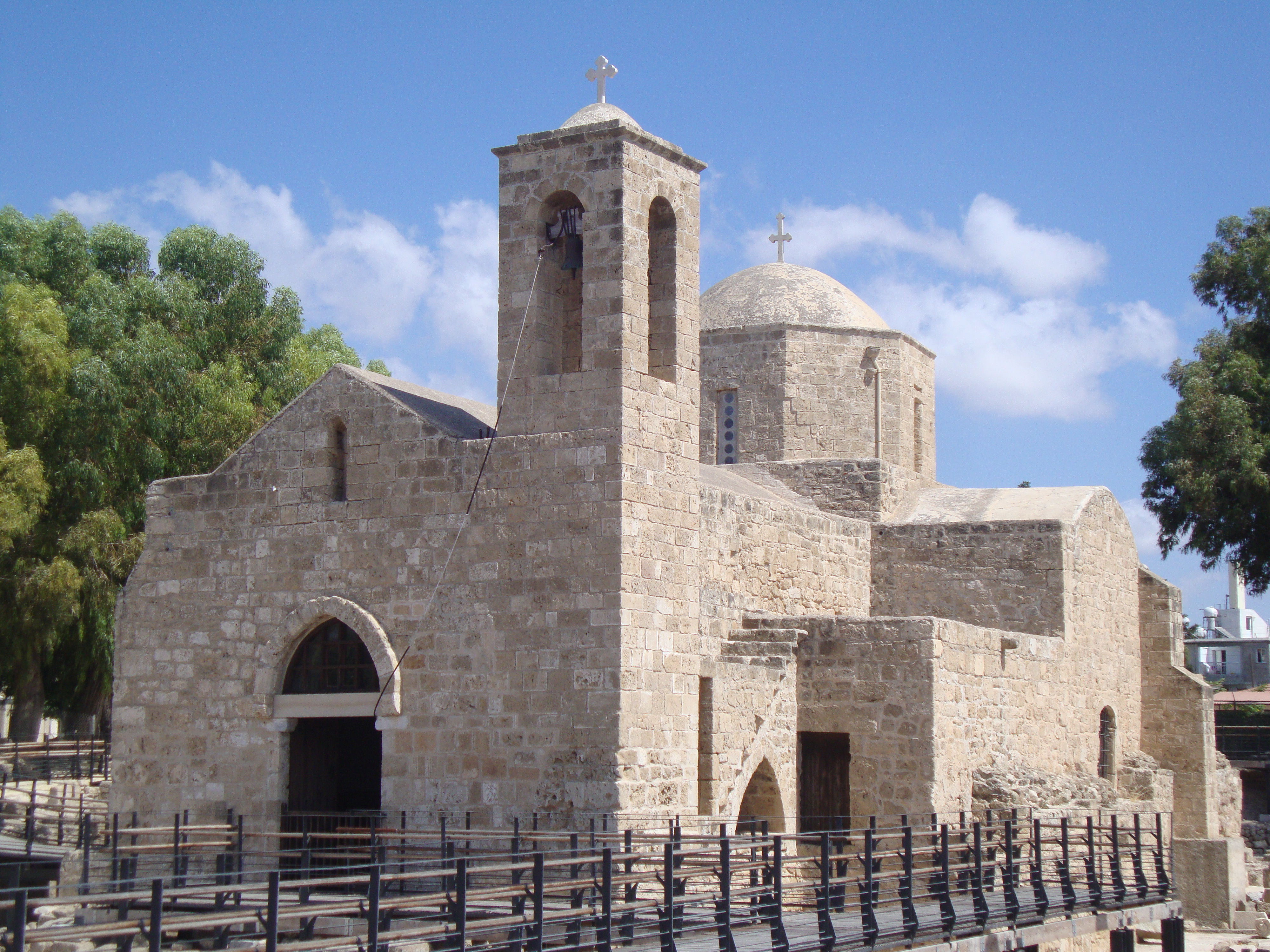 Chrysopolitissa Church (Paphos). 09.2013